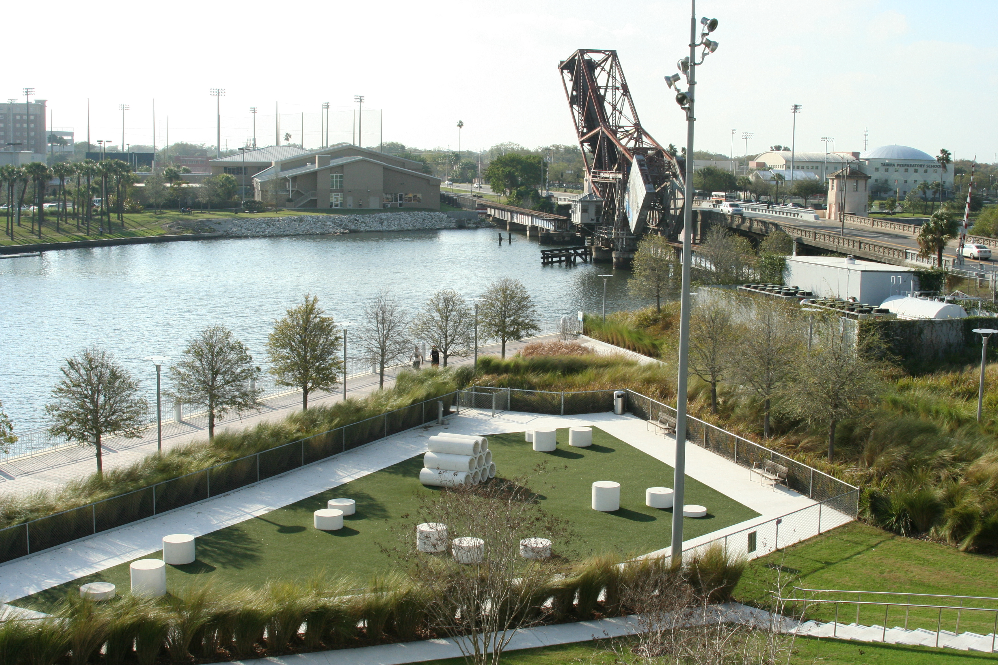 tampa Riverwalk dogpark 2012